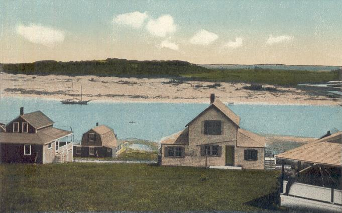 Cottages at Little Neck and Crane's Hill, Ipswich, MA; from a c. 1920 postcard.